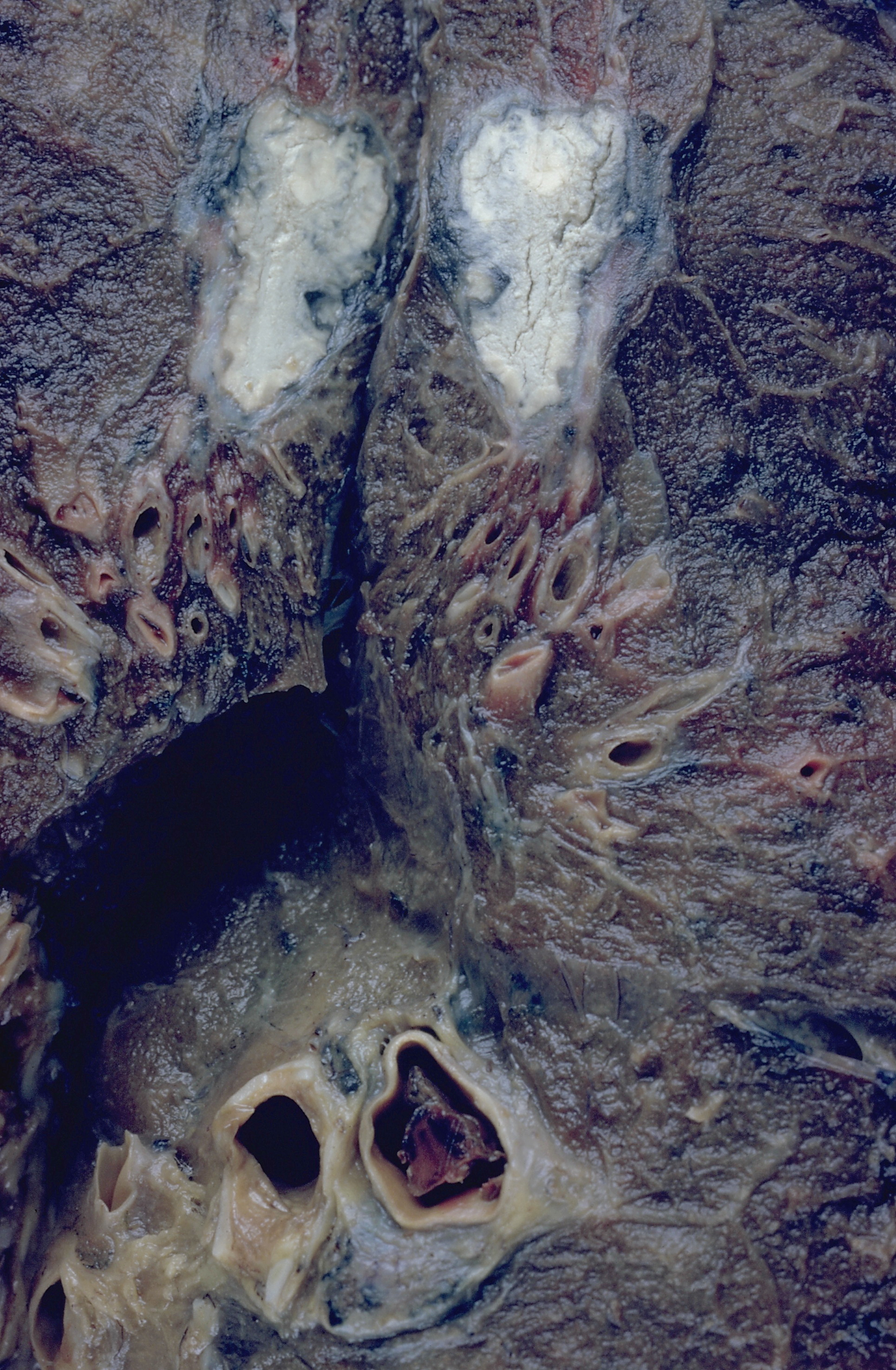 Initial (primary) infection with Mycobacterium. tuberculosis in an immunocompetent individual usually occurs in an upper region of the lung producing a sub-pleural lesion called a Ghon focus. Granulomatous involvement of peribronchial and/or hilar lymph nodes is frequent in primary tuberculosis due to lymphangitic spread from the Ghon focus. The early Ghon focus together with the lymph node lesion constitute the Ghon complex. These lesions undergo healing and over time usually evolve to fibrocalcific nodules. The combination of late fibrocalcific lesions of the lung and lymph node which evolved from the Ghon complex is referred to as the Ranke complex.